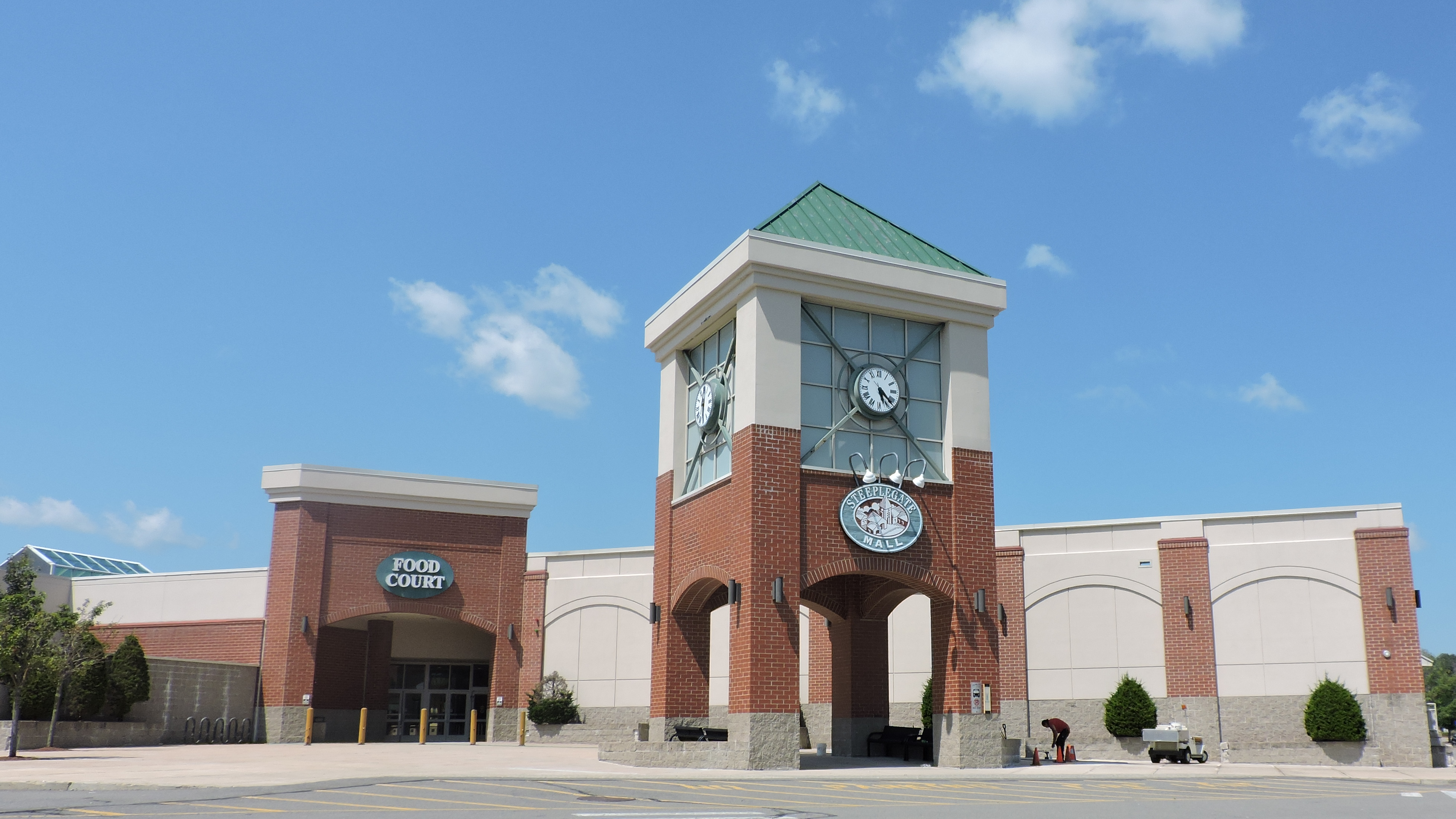 The Main Entrance on August 1, 2017